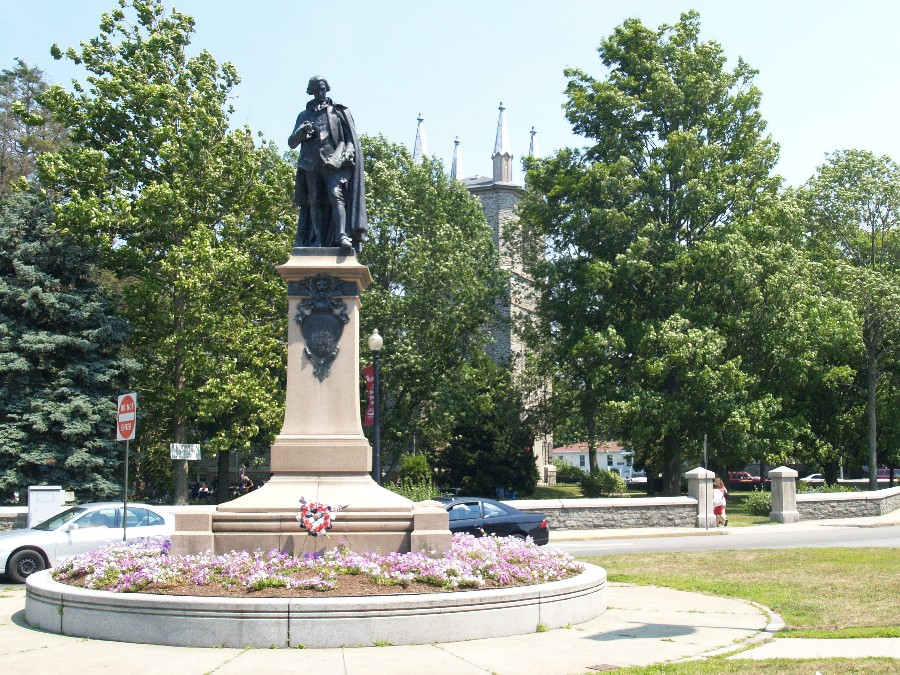 Statue of Robert Treat Paine, Signer of the Declaration of Independence, located at the west end of Church Green, Taunton, Massachusetts; erected in 1904